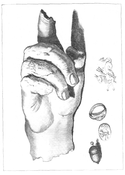 Bronze Roman hand excavated in Voorburg, The Netherlands in 1771, image published in Hendrik van Wijn, Historische en letterkundige avondstonden 1800